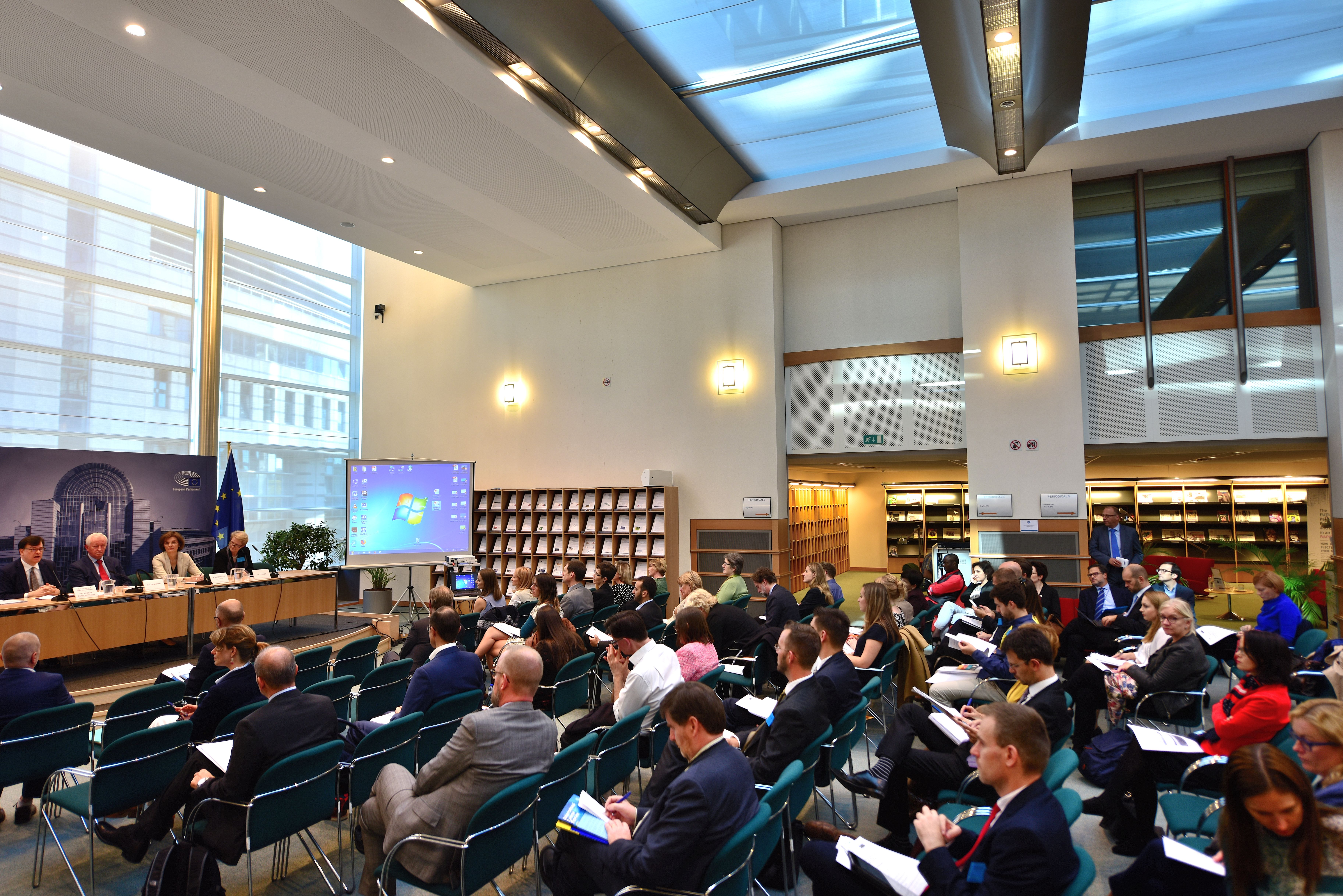 ECPRD (European Centre for Parliamentary Research and Documentation) seminar The future of parliamentary research services and libraries in an era of rapid change: How best to support elected members in their multiple roles in the Reading Room of the European Parliament Library in Brussels (Altiero Spinelli building)